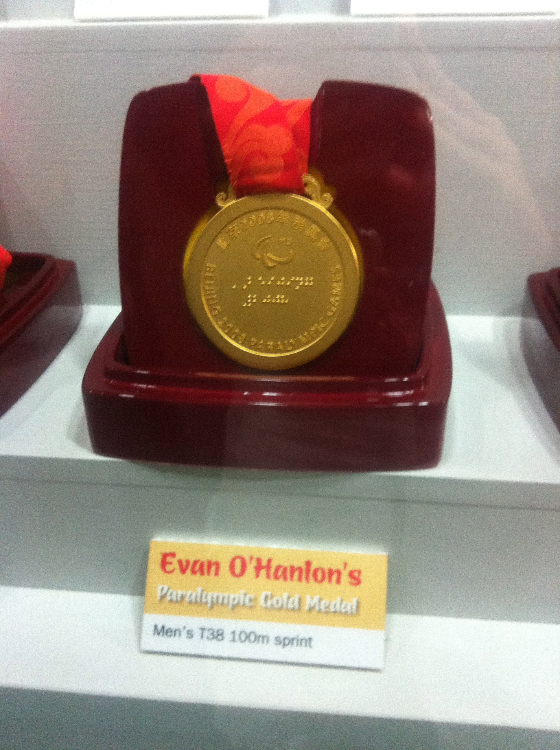 Picture taken at the Australian Institute of Sport. Evan O'Hanlon.